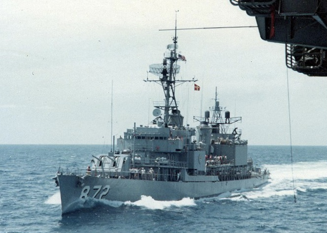 The U.S. Gearing-class destroyer USS Forrest Royal (DD-872) coming alonside the aircraft carrier USS Hancock (CVA-19) for refueling off the coast of Vietnam in April 1967.